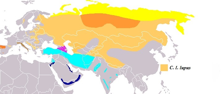 Canis lupus distribution in Eurasia